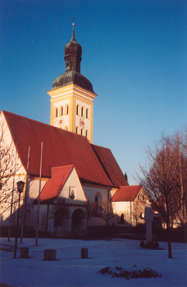 Baar (municipality of Baar-Ebenhausen), view of Saint Mary's Parish Church from south-west.